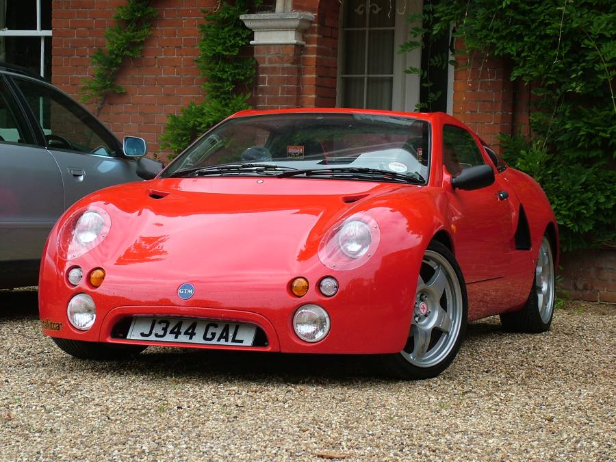 A GTM Libra. Photographer: F.Ranson